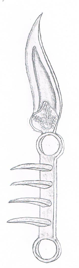 Drawing of a bichwa-bagh nakh, a combination of two traditional types of Indian weapons.